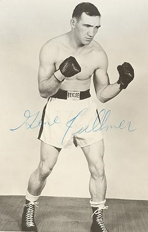 Gene Fullmer in 1960